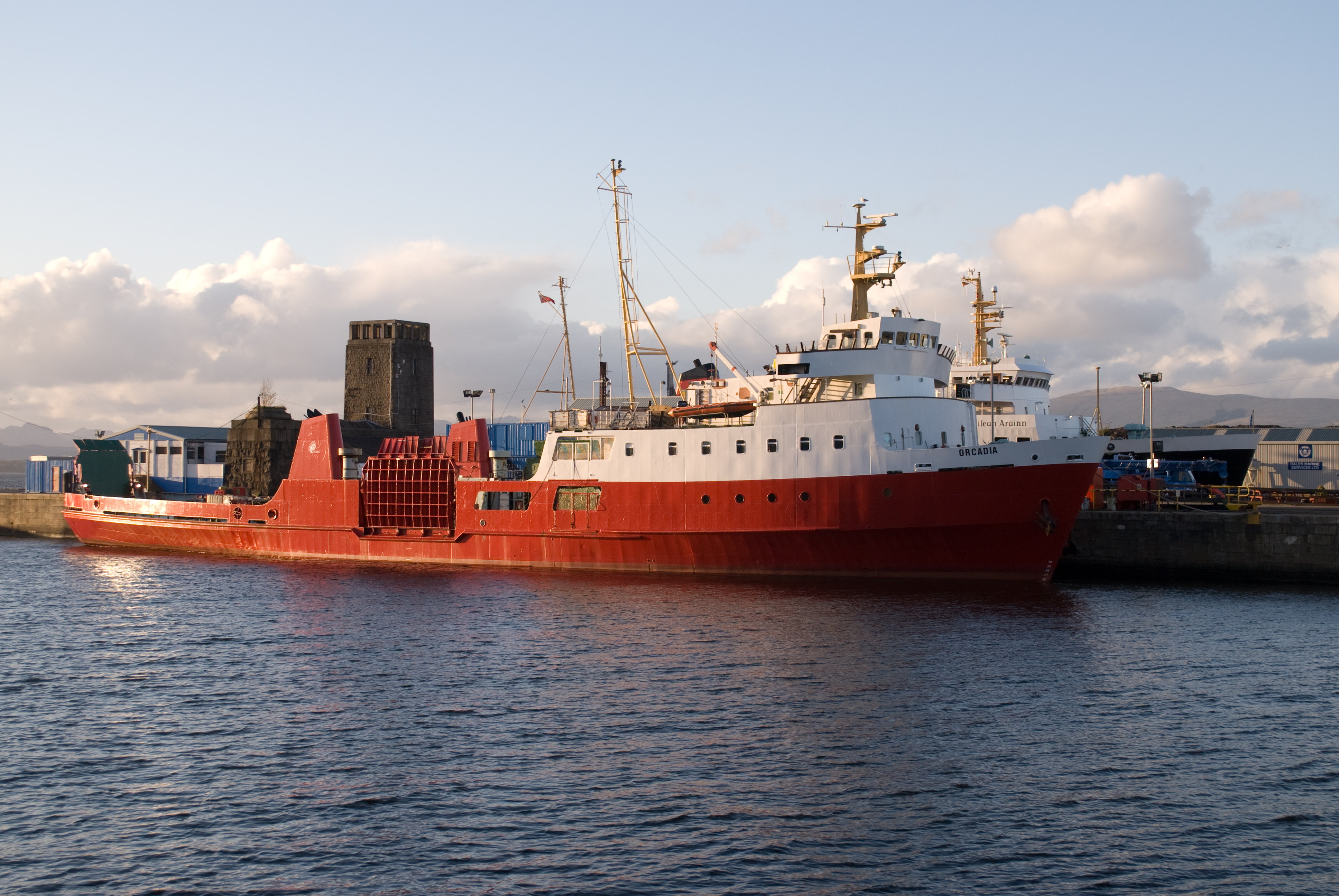 MV Saturn, renamed Orcadia, in the James Watt Dock, Greenock, in front of MV Isle of Arran undergoing maintenance work in Garvel dry dock.